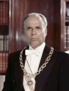 Picture of Tunisia's former president Habib Bourguiba (1960) This file has been extracted from another file: Bourguiba photo officielle.jpg